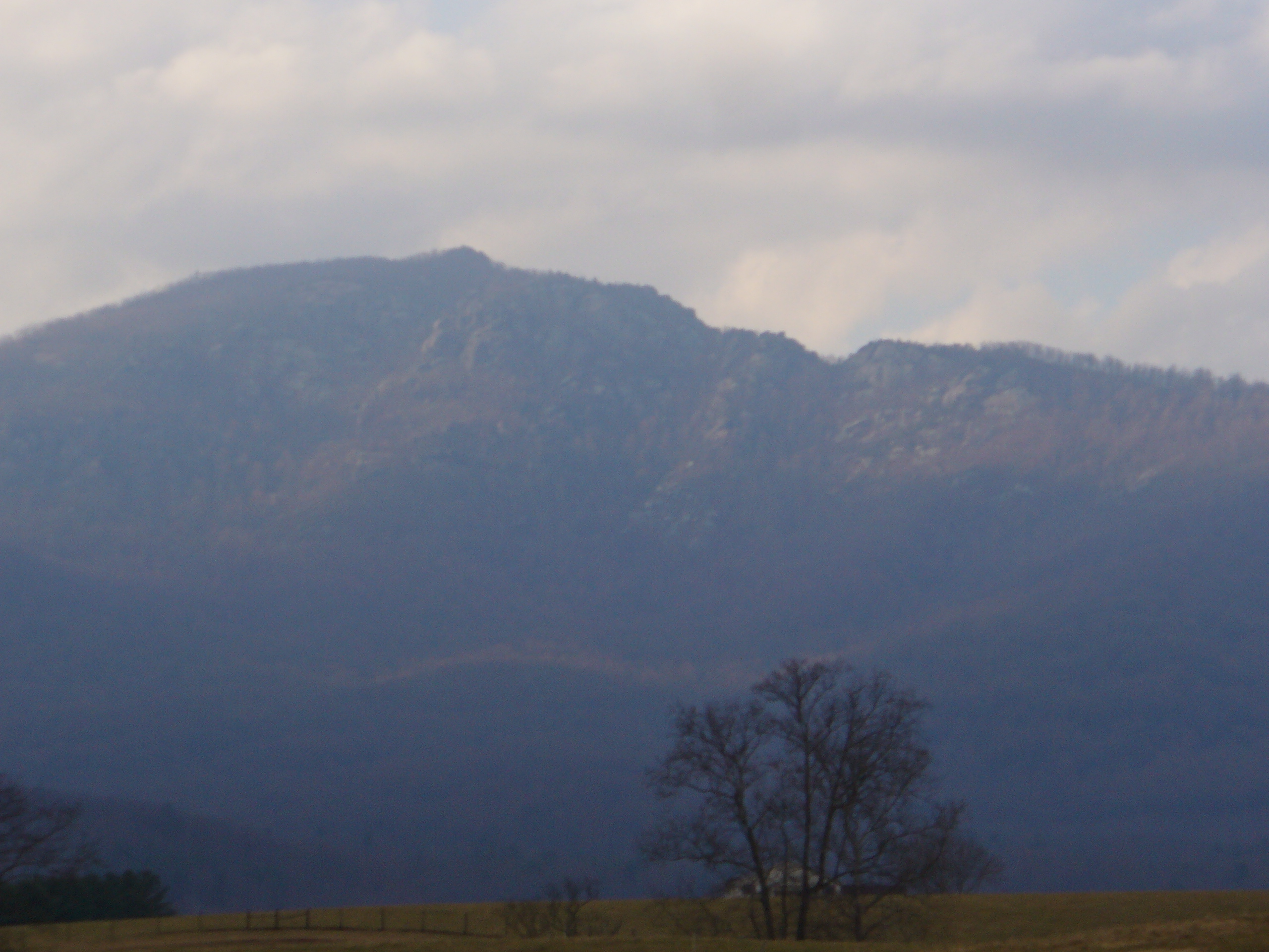 Old Rag Mountain in Shenandoah National Park, Virginia, USA, viewed from the east